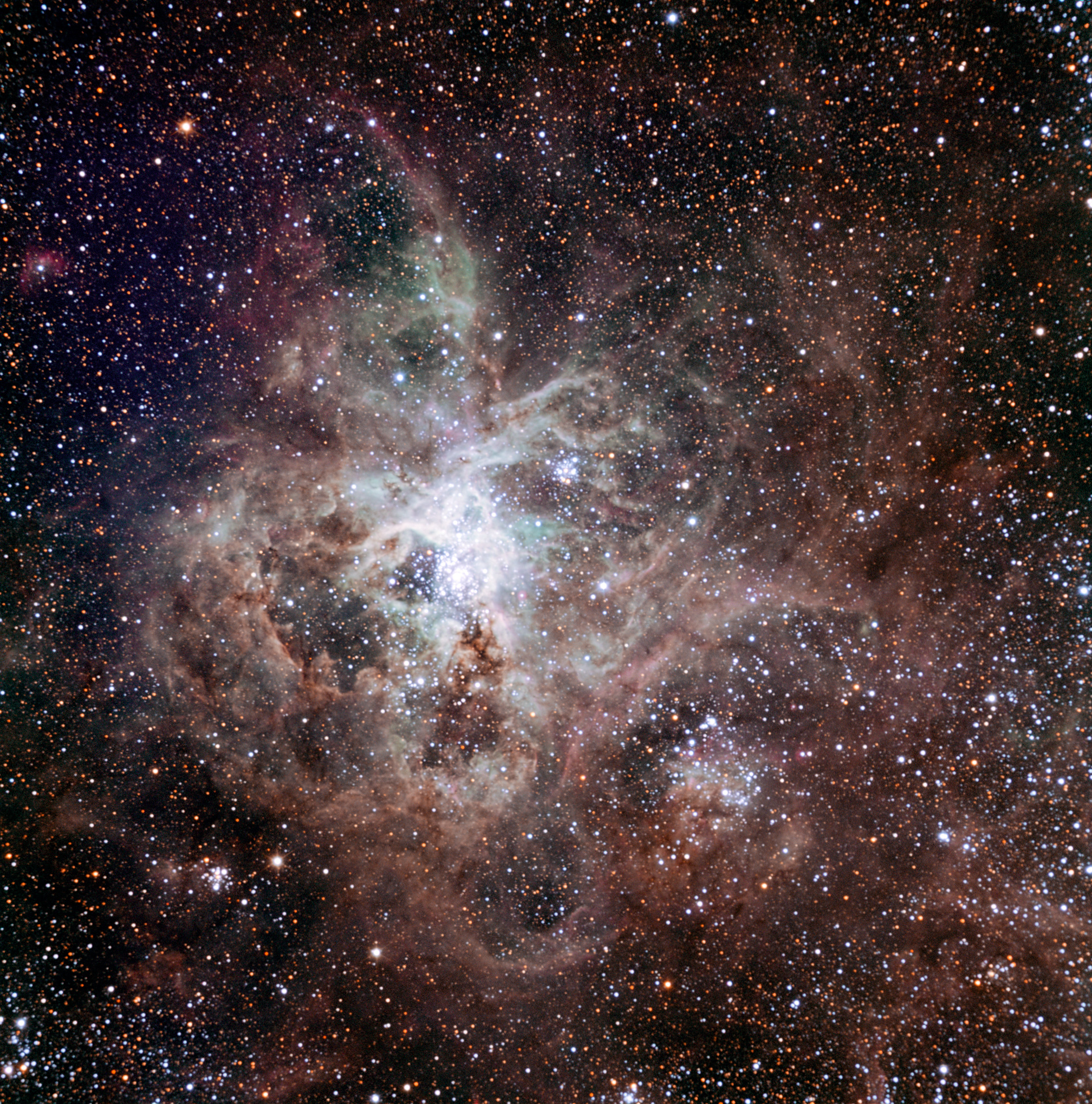 This first light image of the TRAPPIST national telescope at La Silla shows the Tarantula Nebula, located in the Large Magellanic Cloud (LMC) — one of the galaxies closest to us. Also known as 30 Doradus or NGC 2070, the nebula owes its name to the arrangement of bright patches that somewhat resembles the legs of a tarantula. Taking the name of one of the biggest spiders on Earth is very fitting in view of the gigantic proportions of this celestial nebula — it measures nearly 1000 light-years across! Its proximity, the favourable inclination of the LMC, and the absence of intervening dust make this nebula one of the best laboratories to help understand the formation of massive stars better. The image was made from data obtained through three filters (B, V and R) and the field of view is about 20 arcminutes across.